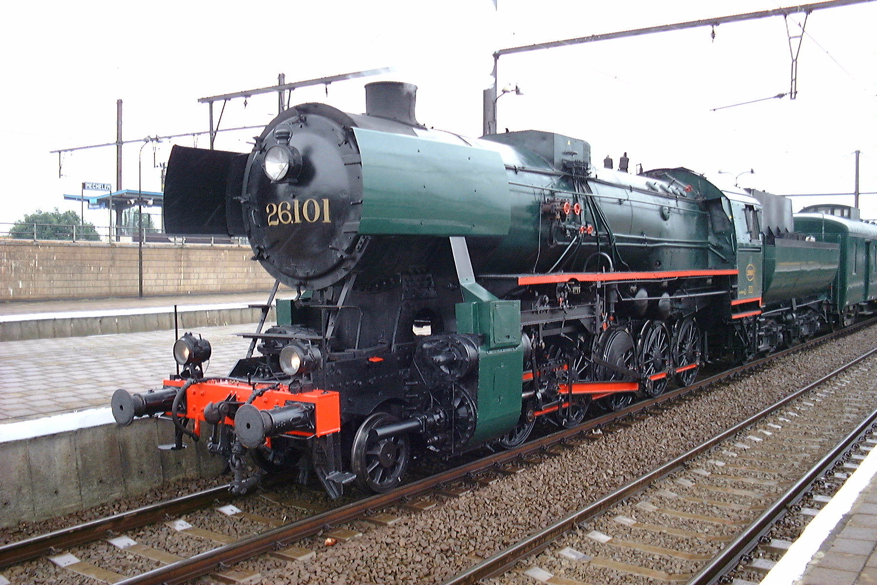 After the Second World War, Belgian railways obtained 100 Type 26 locomotives of 2-10-0 type for freight duty, of a popular German war design (Kriegslokomotive).Sadly, none of these machines survived into preservation. However, the railway conservation organisation TSP-PFT acquired a similar loco in Poland, restored it to Belgian standards, and now uses it for special trains as 26.101. Pictured here in Mechelen, June 2000. Former Polish industrial Ty2-3554 (not PKP), built: Krauss-Maffei 16691/1943